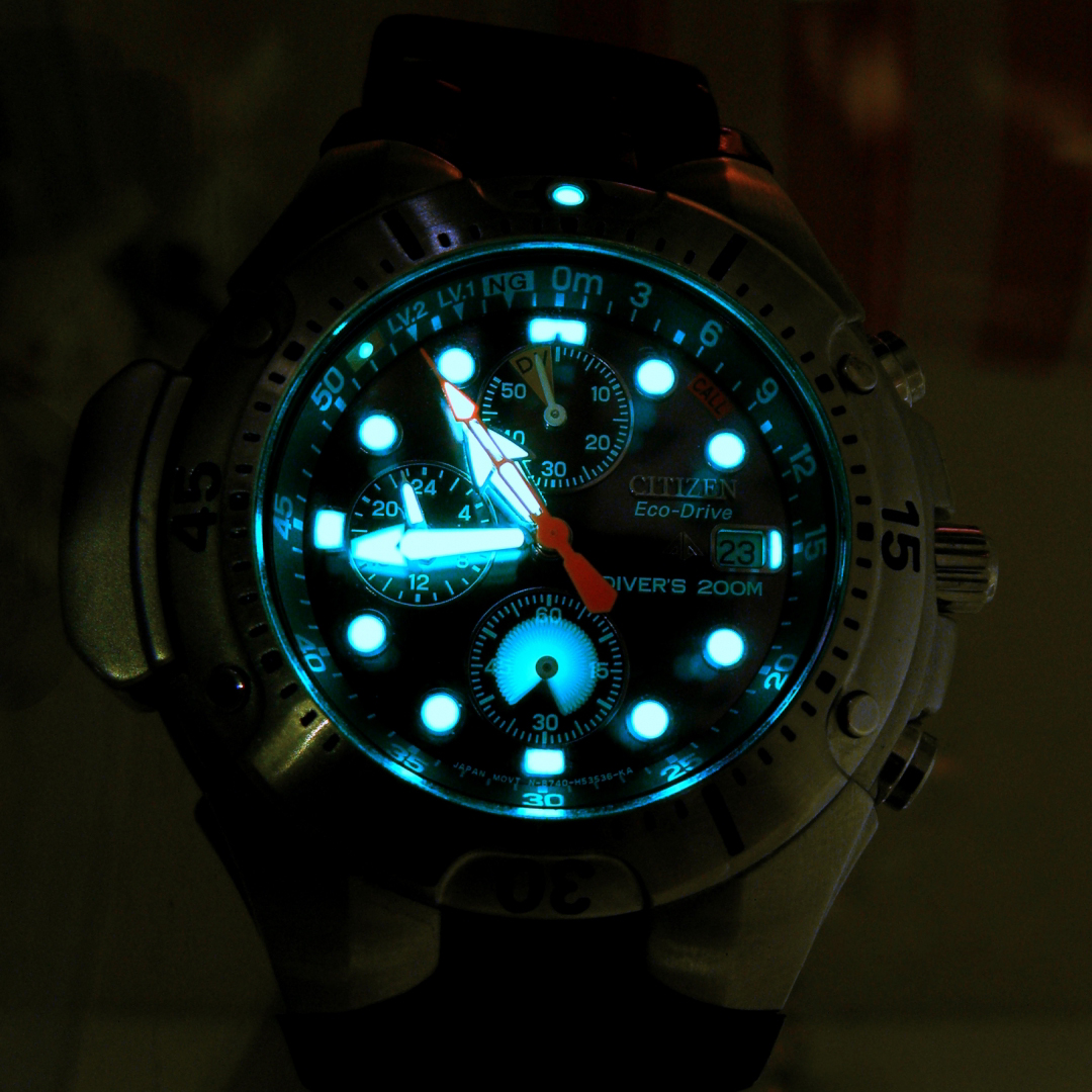 Citizen-200m-Divers